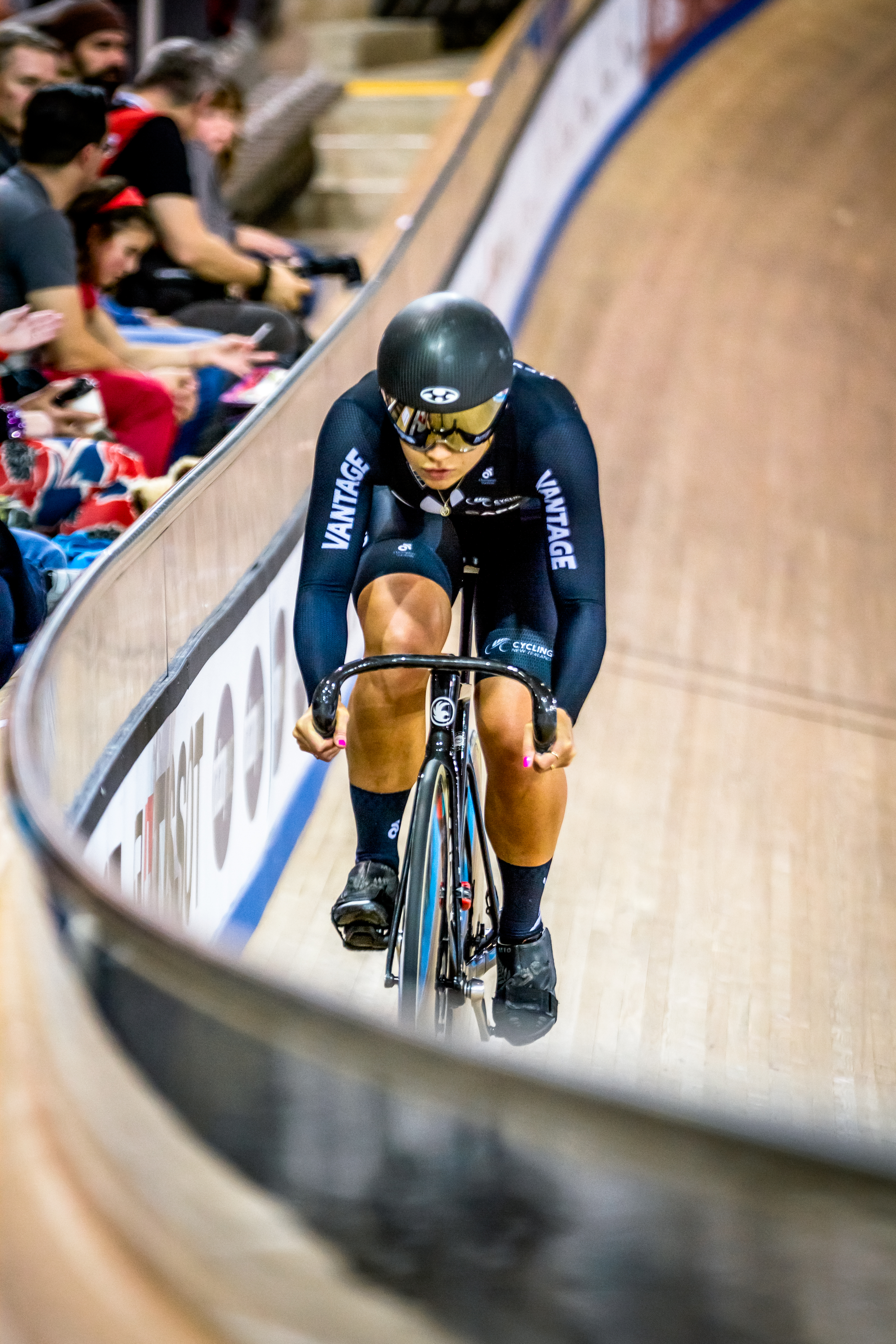 Natasha Hansen (NZL). Women's Sprint Qualifying (200m). UCI Track World Cup, Milton, Ontario, Canada. 2017.